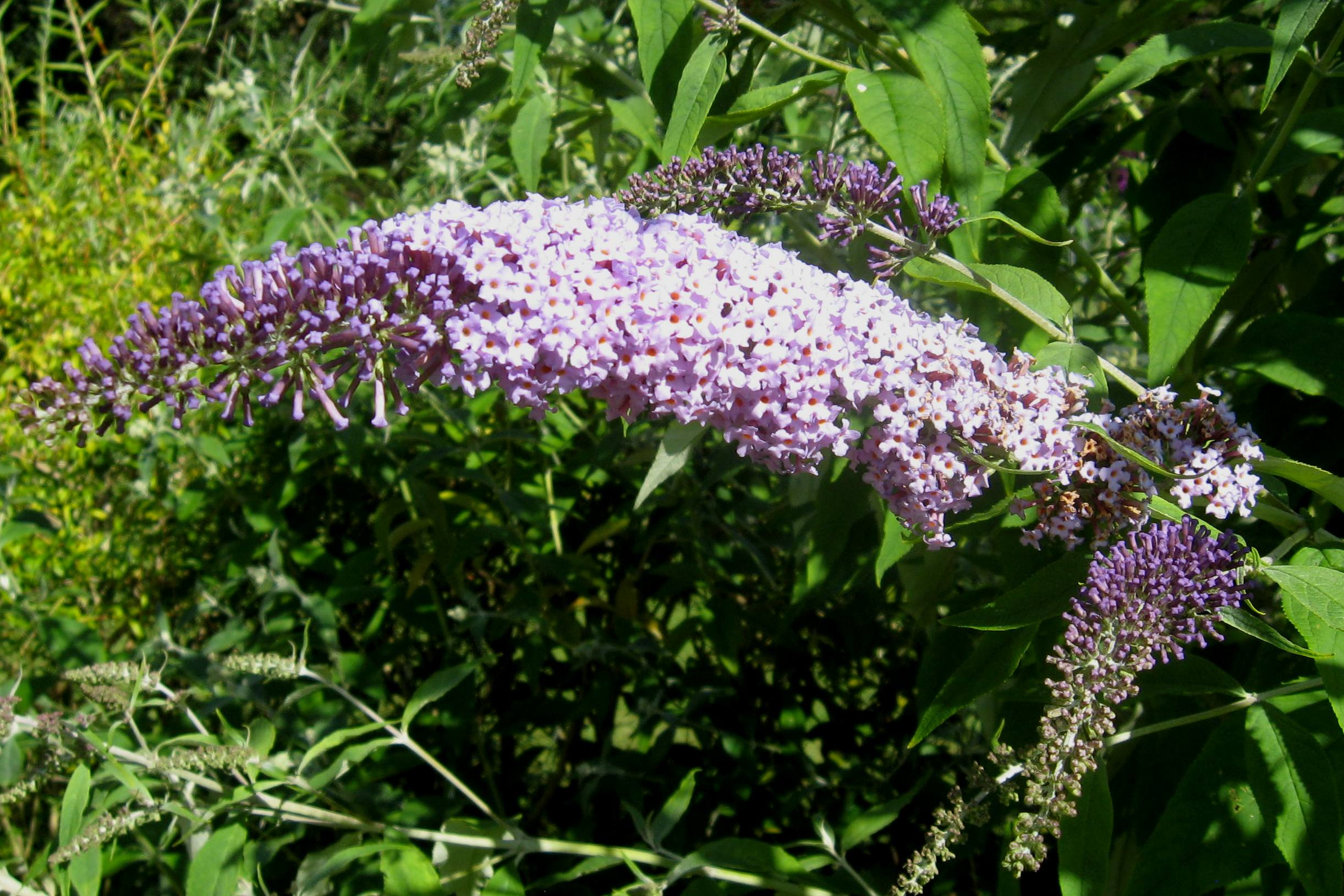 Photo of Buddleja cultivar 'Fortune' taken at Longstock Park, UK, August 2012